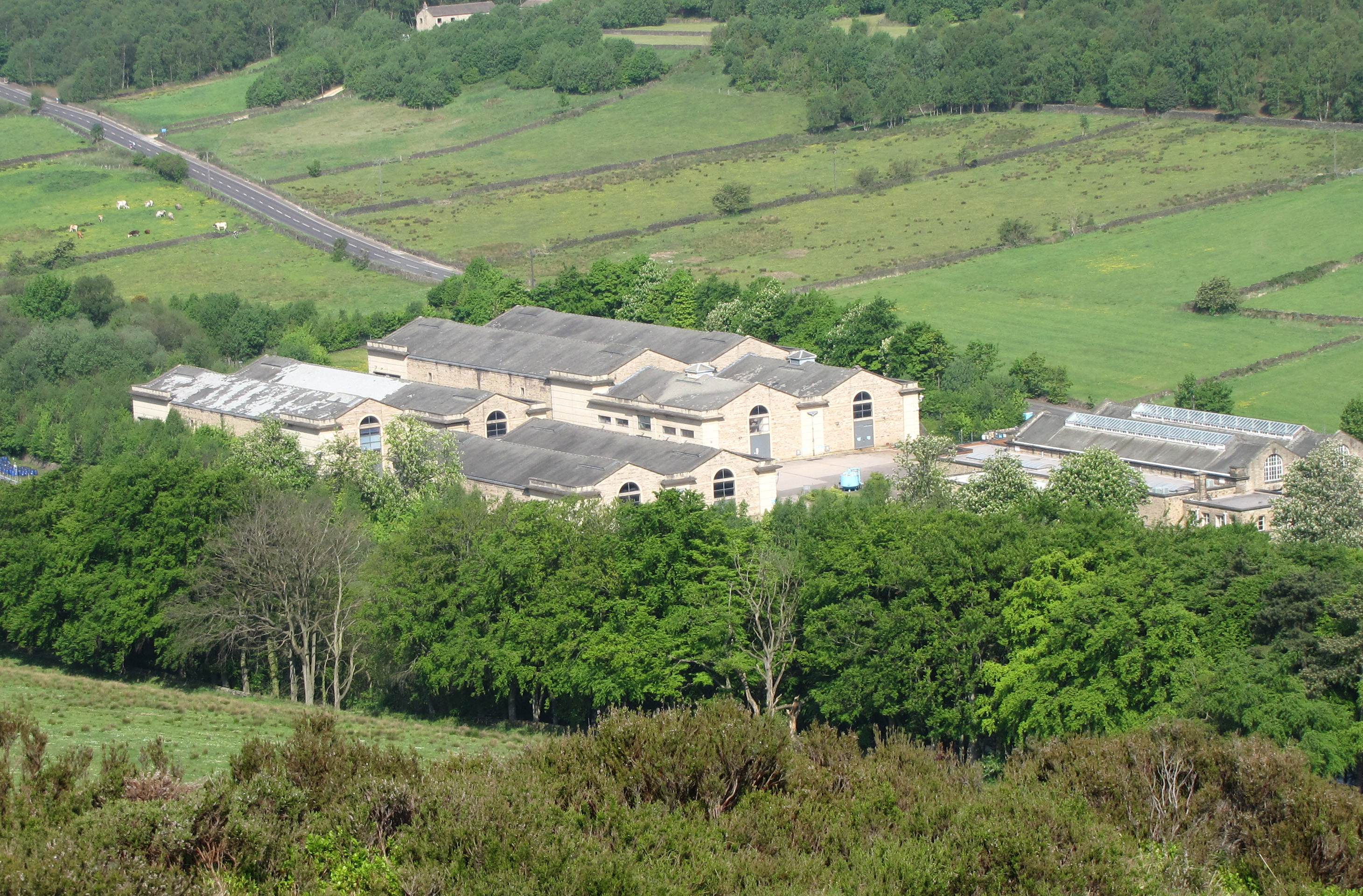 The Rivelin water treatment works in Sheffield, England